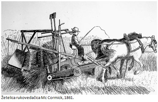 kosilica